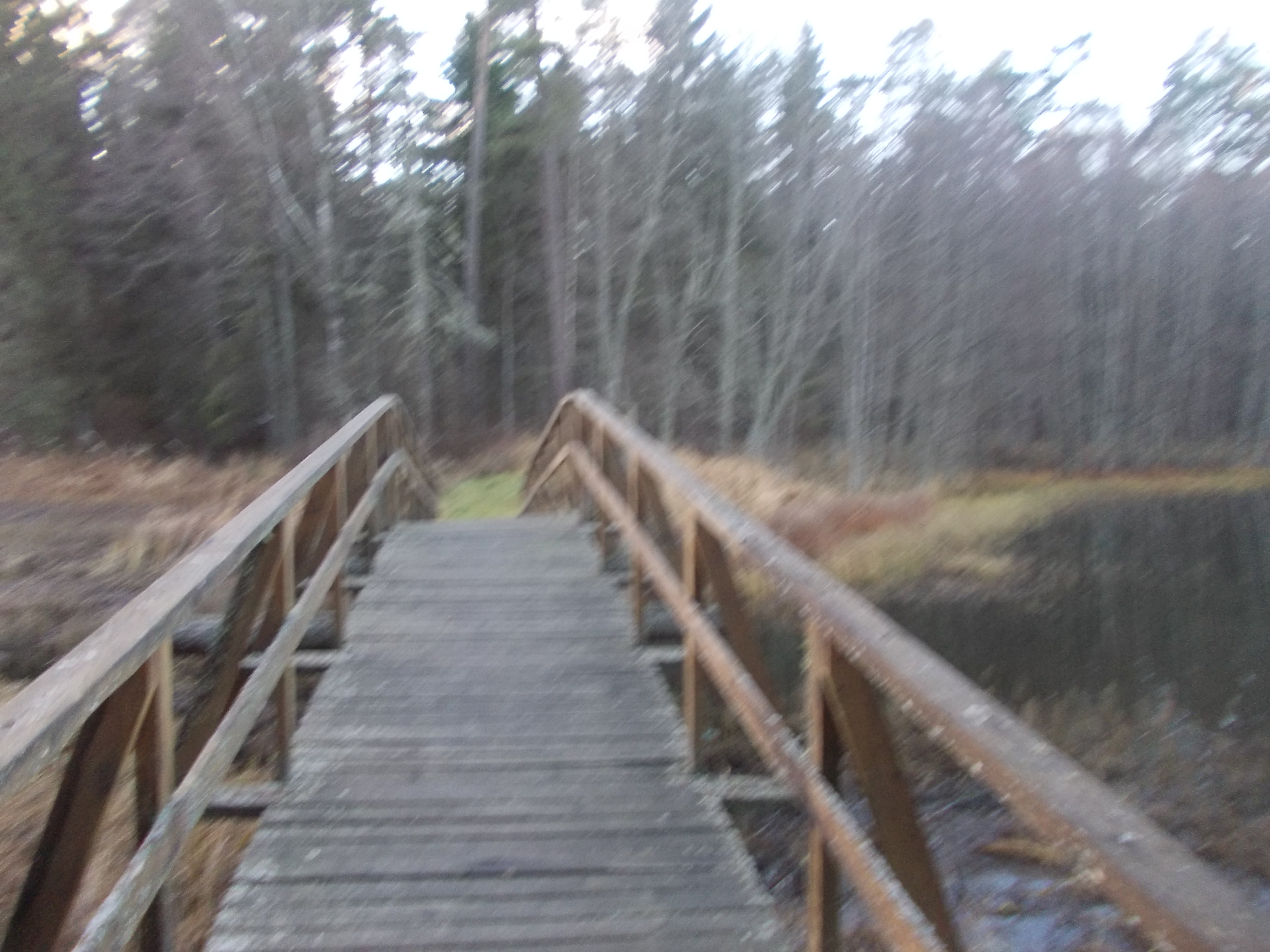 Bridge over Soontaga Stream